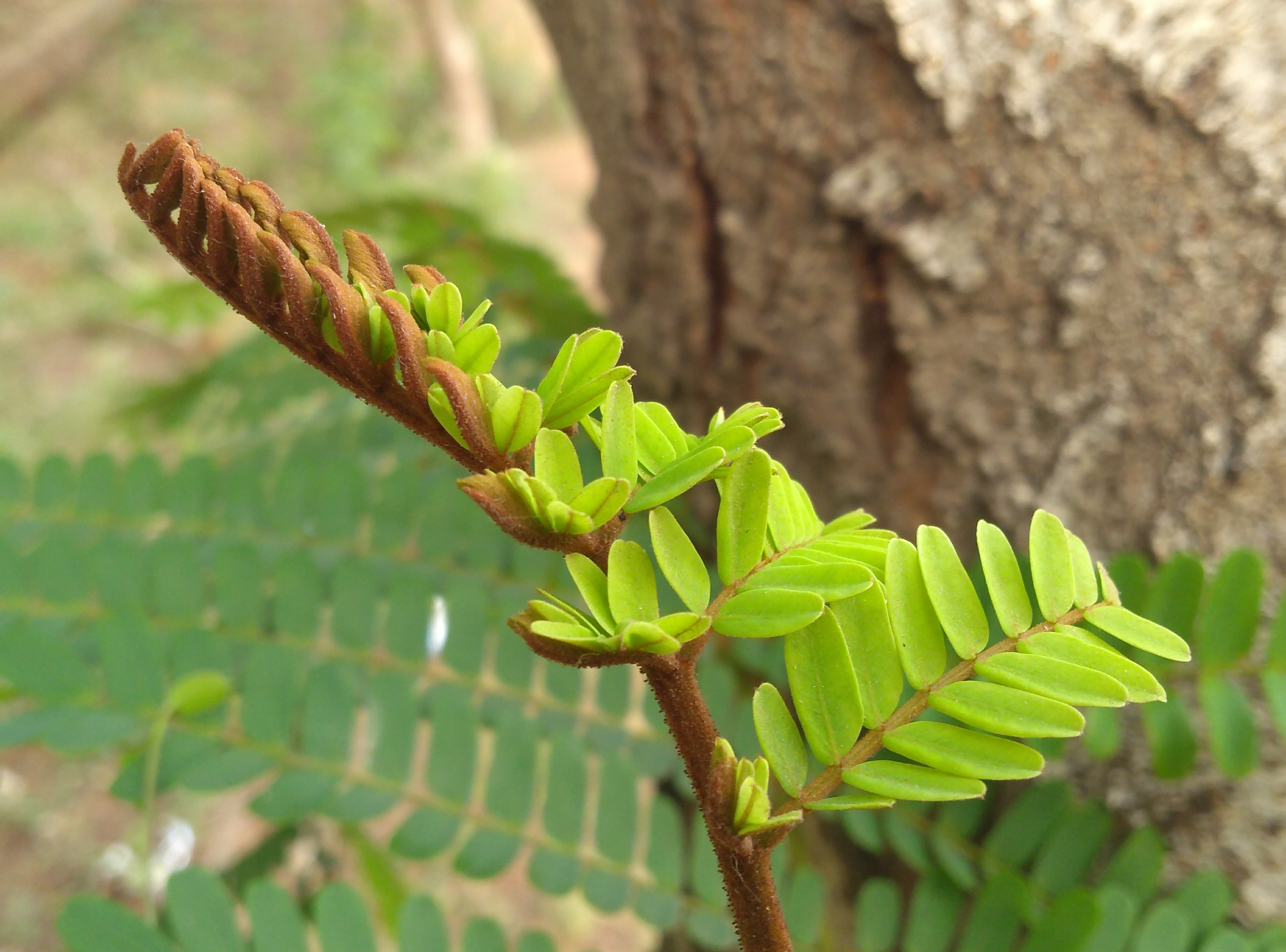 Intense brown buddings that change into green colour when they grow.